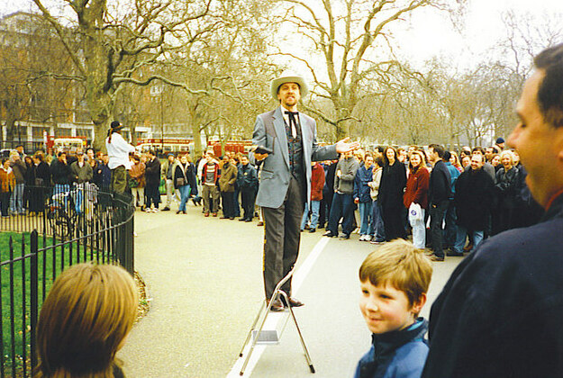 Speaker's Corner. The north-east corner of Hyde Park is the haunt of many orators who speak on any subject under the sun. This Southern US gentleman was speaking on the bible.